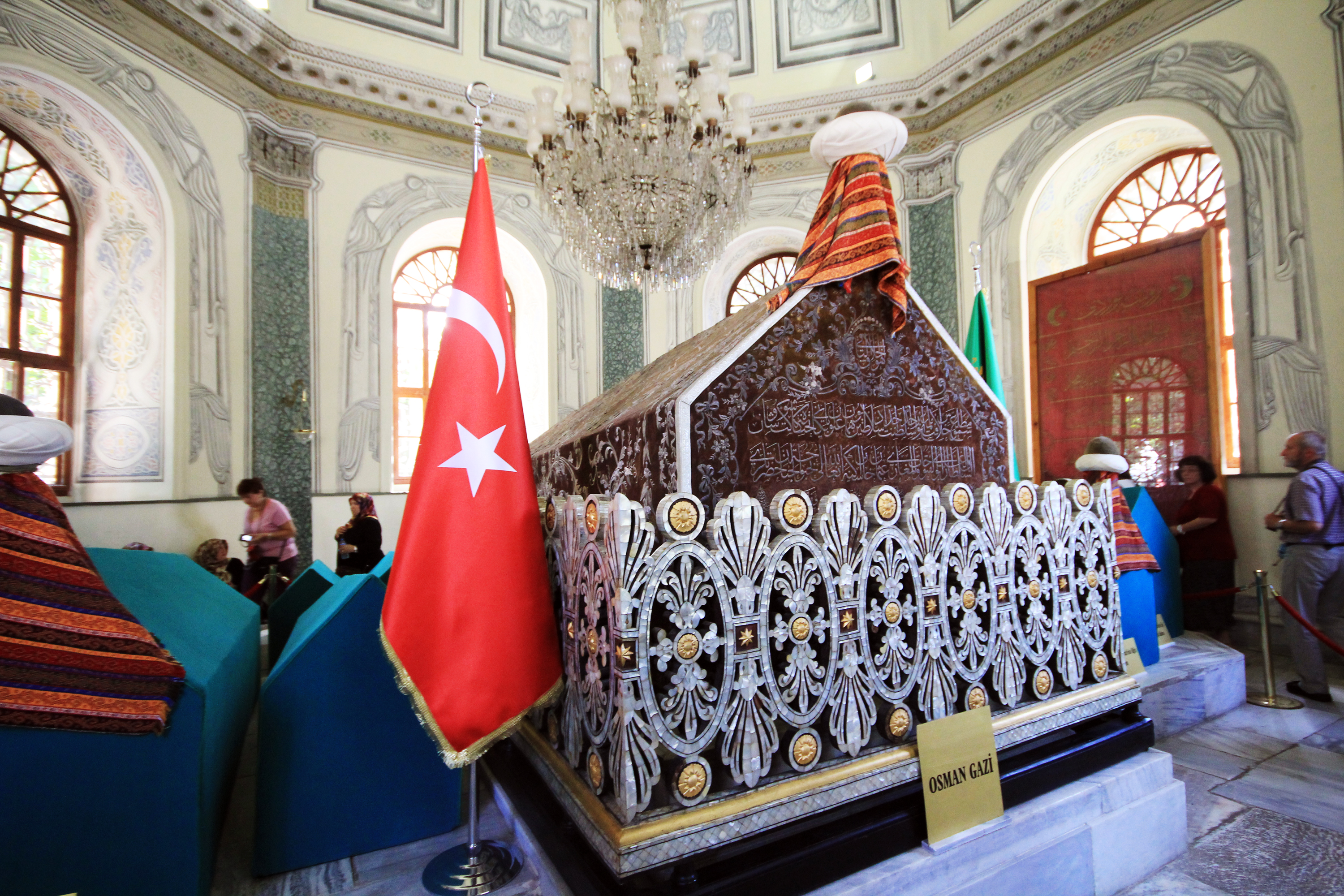 The thomb of Sultan Osman I in Bursa city, Turkey